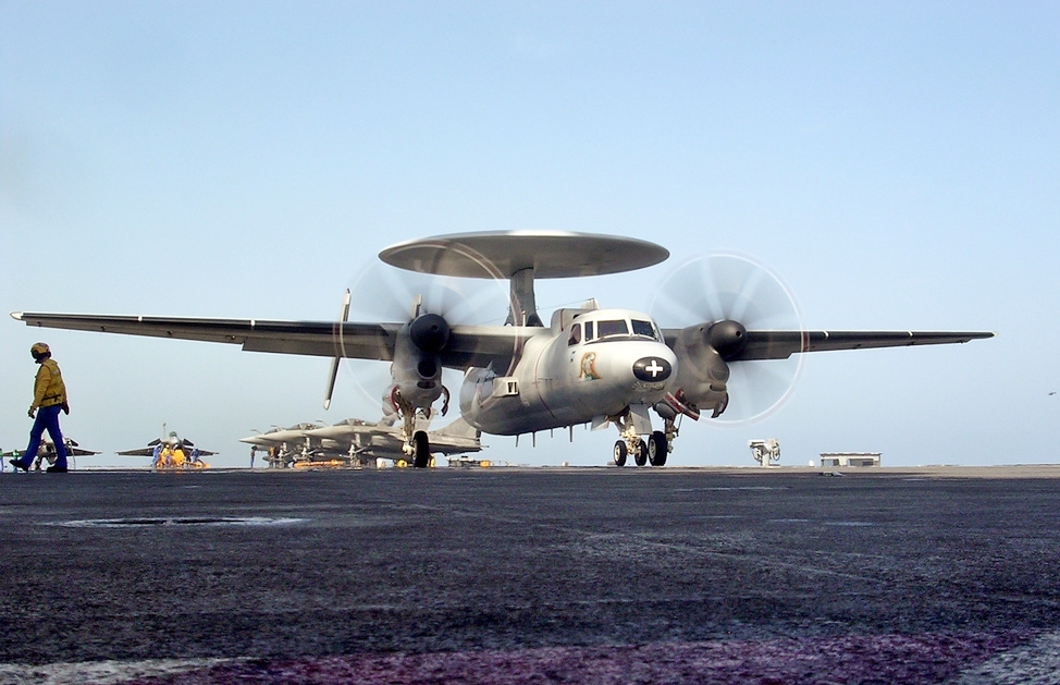 Nuclear aircraft carrier Charles de Gaulle (R 91)